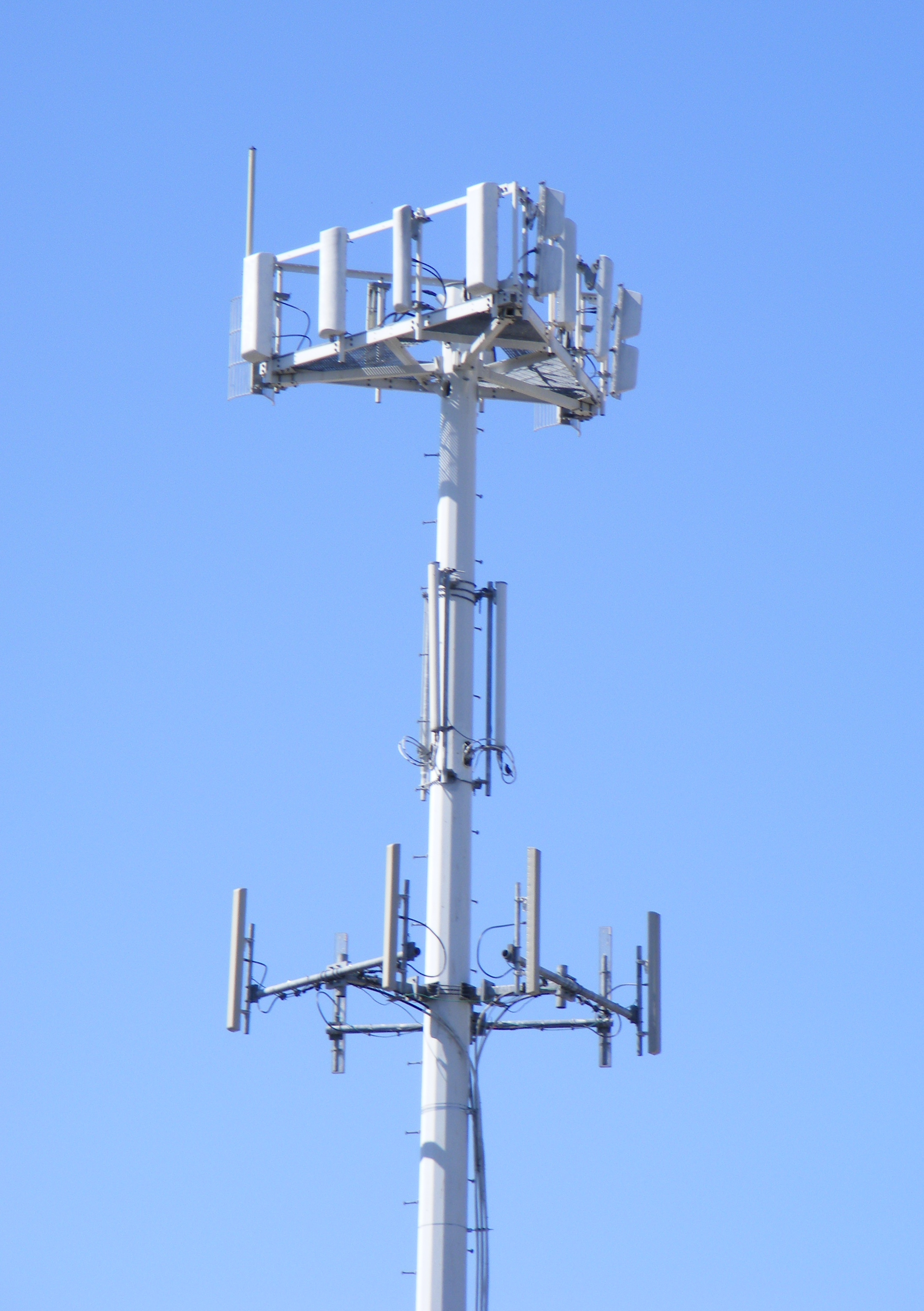 The top of a cell tower. Photo taken June 16, 2007.